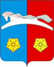 Coat of arms of Shabanovskoye, Krasnodar Krai, Russia.